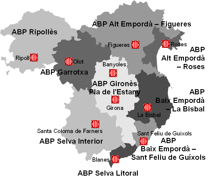 Map of Girona Police Region and police stations.